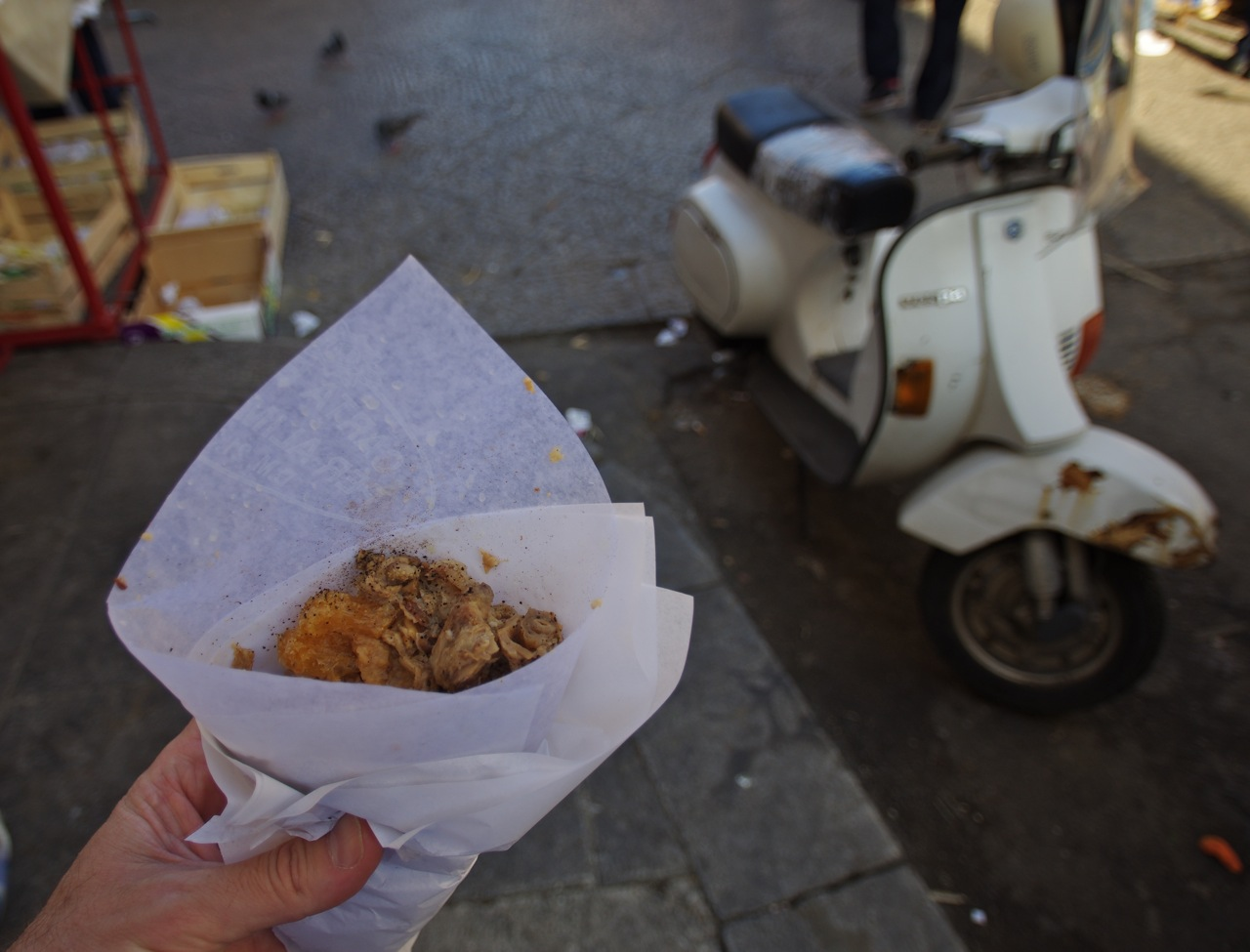 Frittola street food (and aVespa) in Ballaro market Palermo Sicily